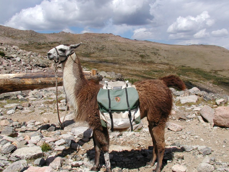 Lloyd the llama rests near the Chasm Lake Junction on the Longs Peak Keyhole trail in Rocky Mountain National Park, Colorado. Lloyd is one of the llamas used at Rocky Mountain National Park to clean, maintain, and supply the high country privies. Lloyd is waiting near "Sky Potty Junction" at an elevation of about 11,700 feet above sea level. Another privy at the Boulder Field is even higher up at an elevation of 12,750 feet. The high altitude toilets are maintained once a week during the summer. Waste from the toilets passes through solar-heated trays, where up to 70% of the moisture is removed by solar heat, wind and solar-powered fans. The remaining waste solids are shoveled into bags and packed out on llamas. Longs Peak.